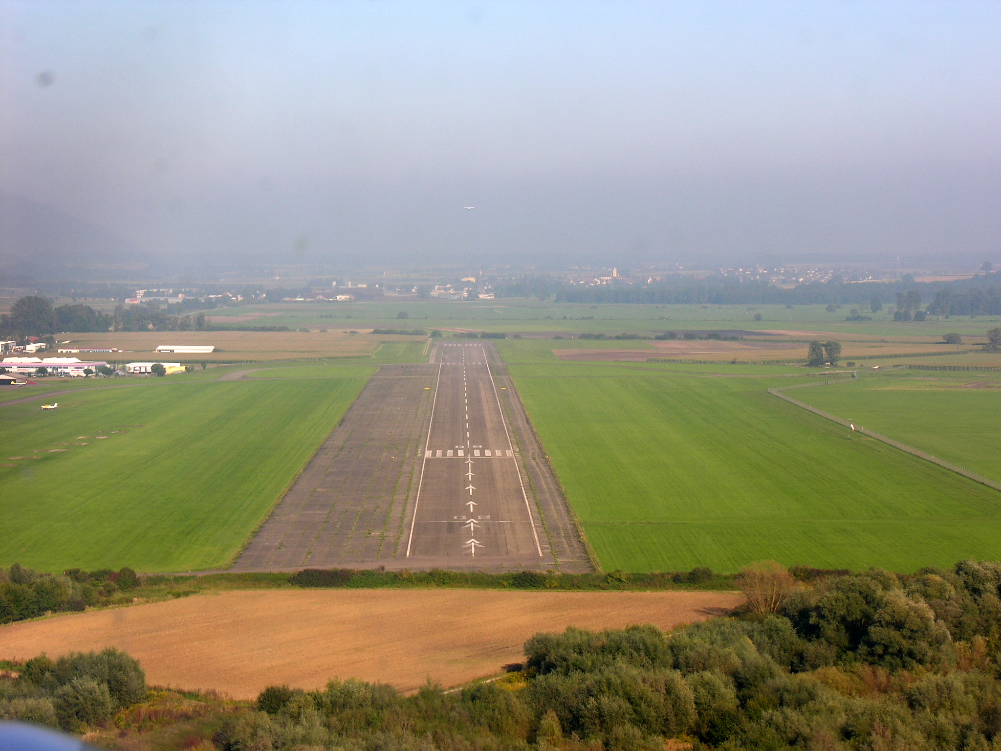 Germany, Baden-Württemberg, Short final for runway 08 in Mengen